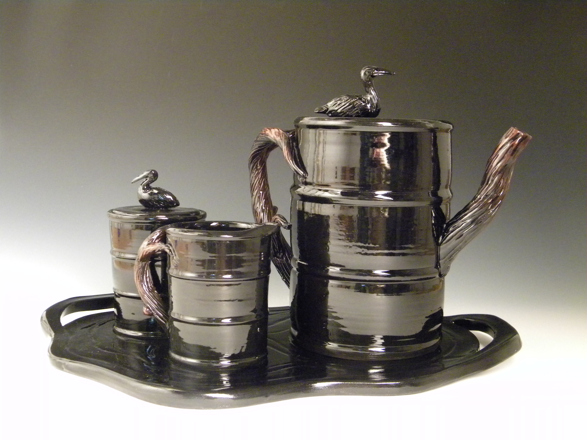 Crude Awakening Tea Service set, by Michael Boroniec after the BP oil spill of 2010.